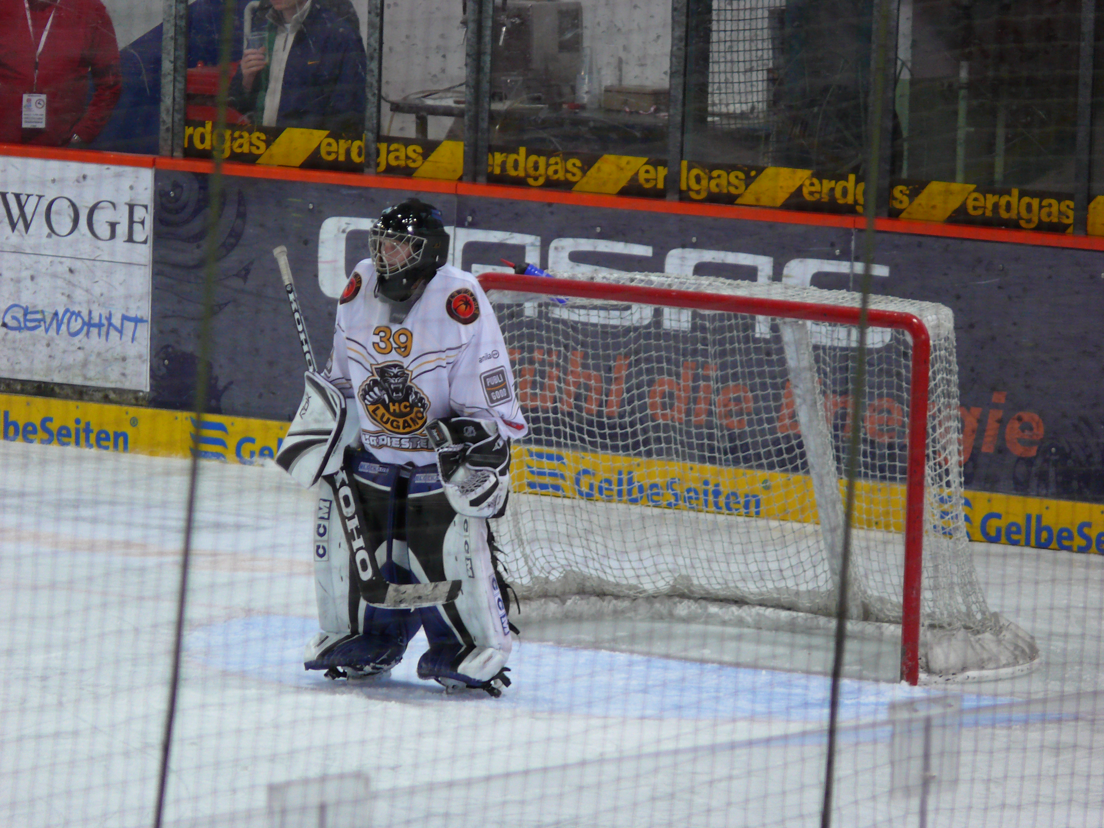 IIHF European Women Champions Cup 2007 - first round in Berlin Oktober, 6th-8th 2006 Goalkeeper of the HC Lugano Panther Ladies Team, Jessica Müller, at the IIHF European Women Champions Cup 2007, first round, in Berlin